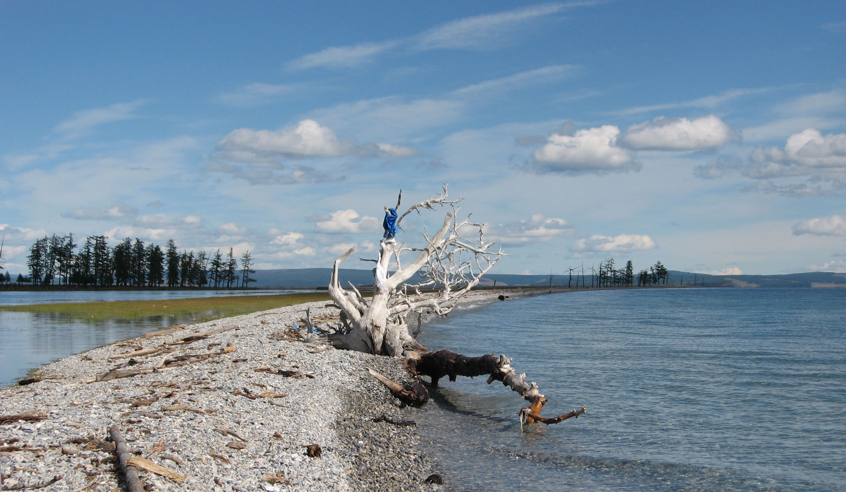 A tree with a hadag at the western shore of Hövsgöl nuur, somewhere near Toilogt. August 2006